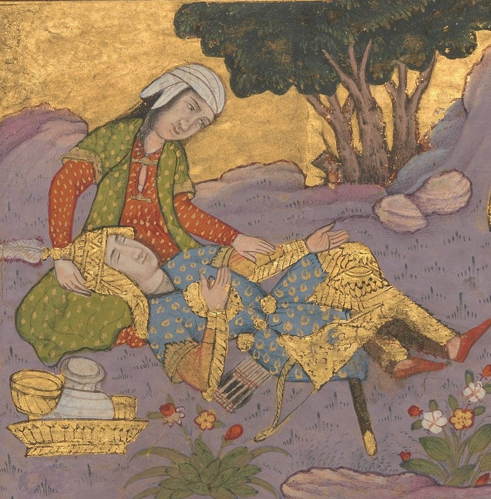 The Shahnama is filled with tragic events. On the page illustrated here, the painter has depicted the sad destiny of Farud, the son of Prince Siyavush and Jarira. After witnessing her son’s death, Jarira ripped open her belly with a dagger. Then, lying down with her face against Farud’s, she let herself die.